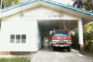 Hagonoy fire station Hagonoy, Davao del Sur, Philippines